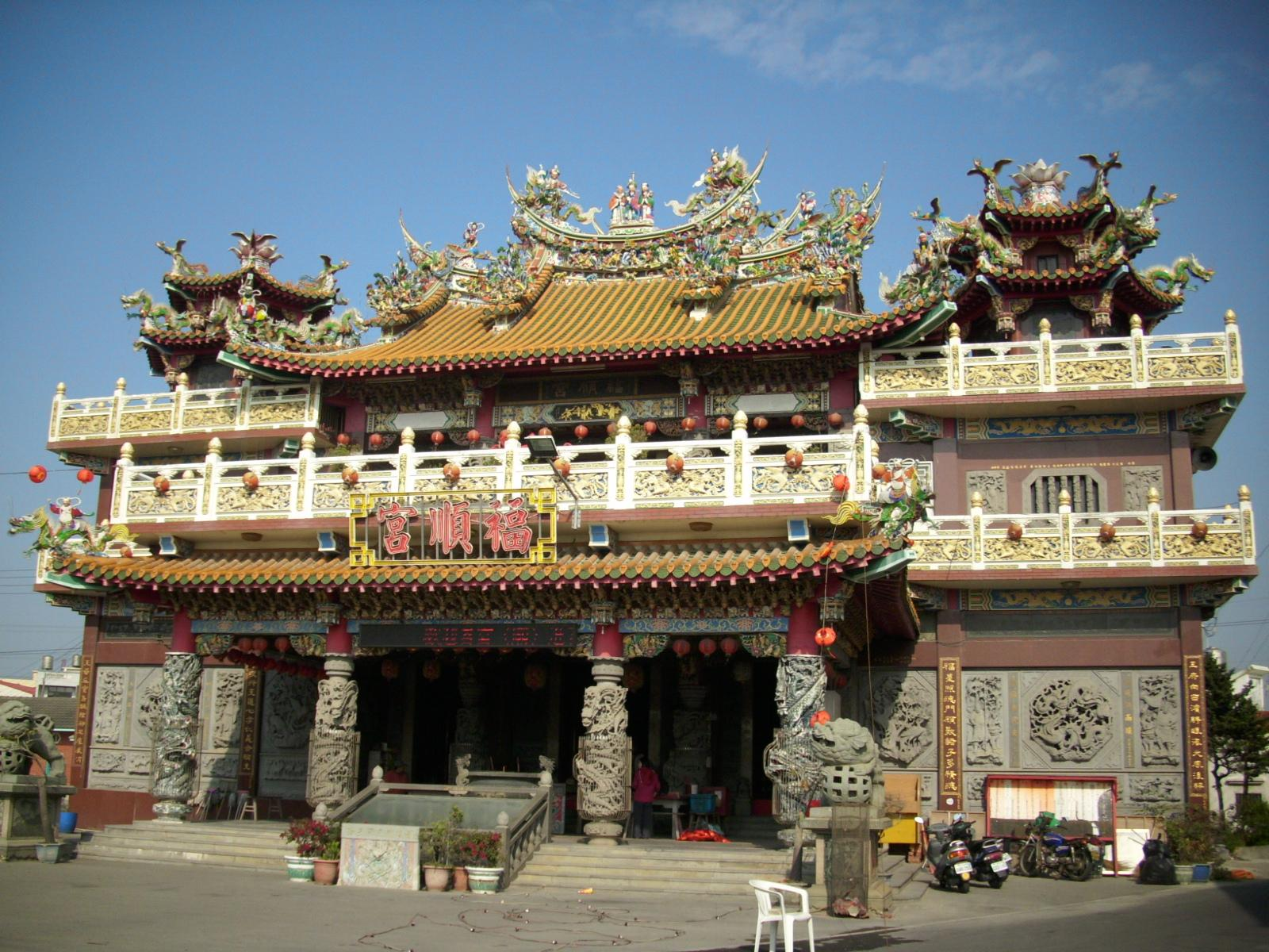 Fushun Temple, Longjing District, Taichung.